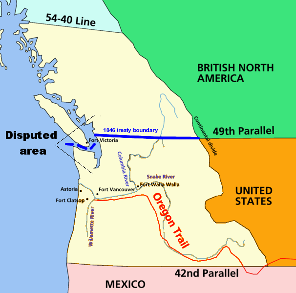 Map of Oregon boundary dispute; lands in Oregon country disputed between Britain and the USA. I made the map in Corel Painter IX using information from several maps.